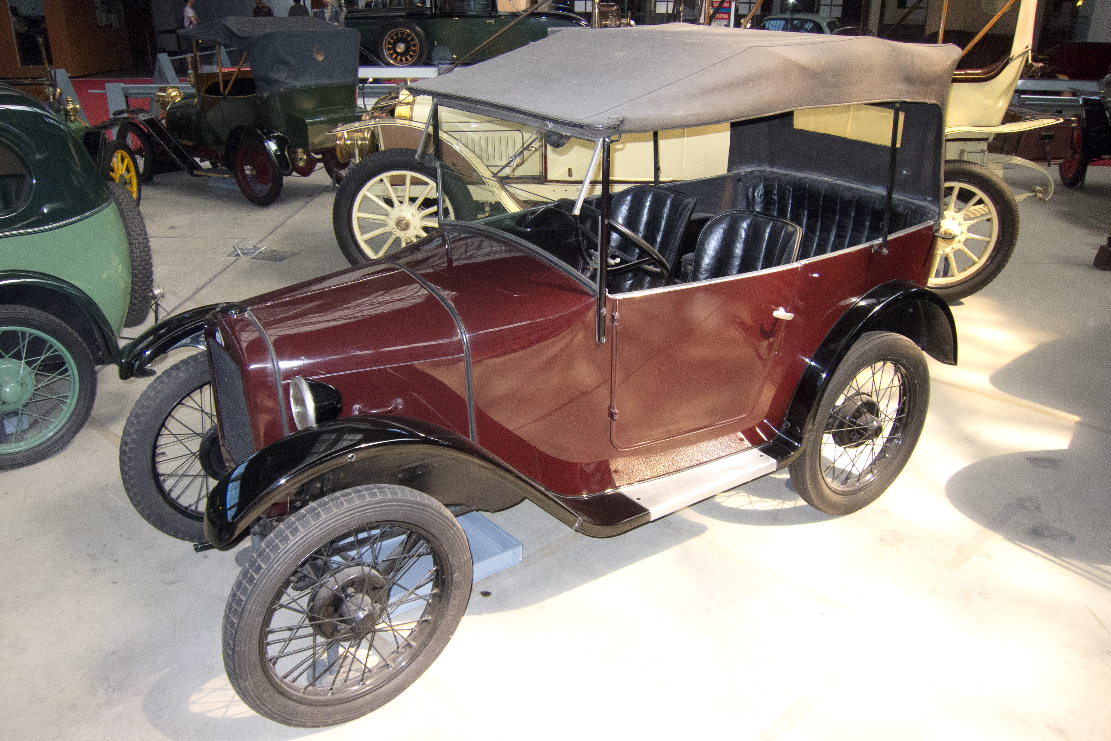 Dixi 3/15 PS Typ DA 1 (1928) at Autoworld Brussels, Belgium, 2011